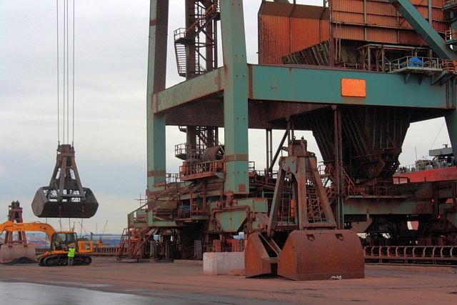 Bulk Ore Terminal, Redcar. A JCB is being slung to the grab of one of the bulk off loaders for hoisting into the ship's hold to scrape the last of the coal from the sides. See 1448369.